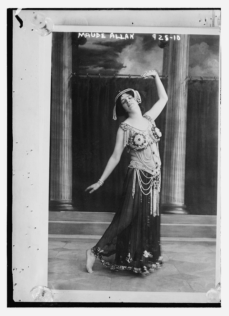 Actress-dancer Maude Allan as Salomé, circa 1906–1910s; a publicity photo for her play Vision of Salomé.